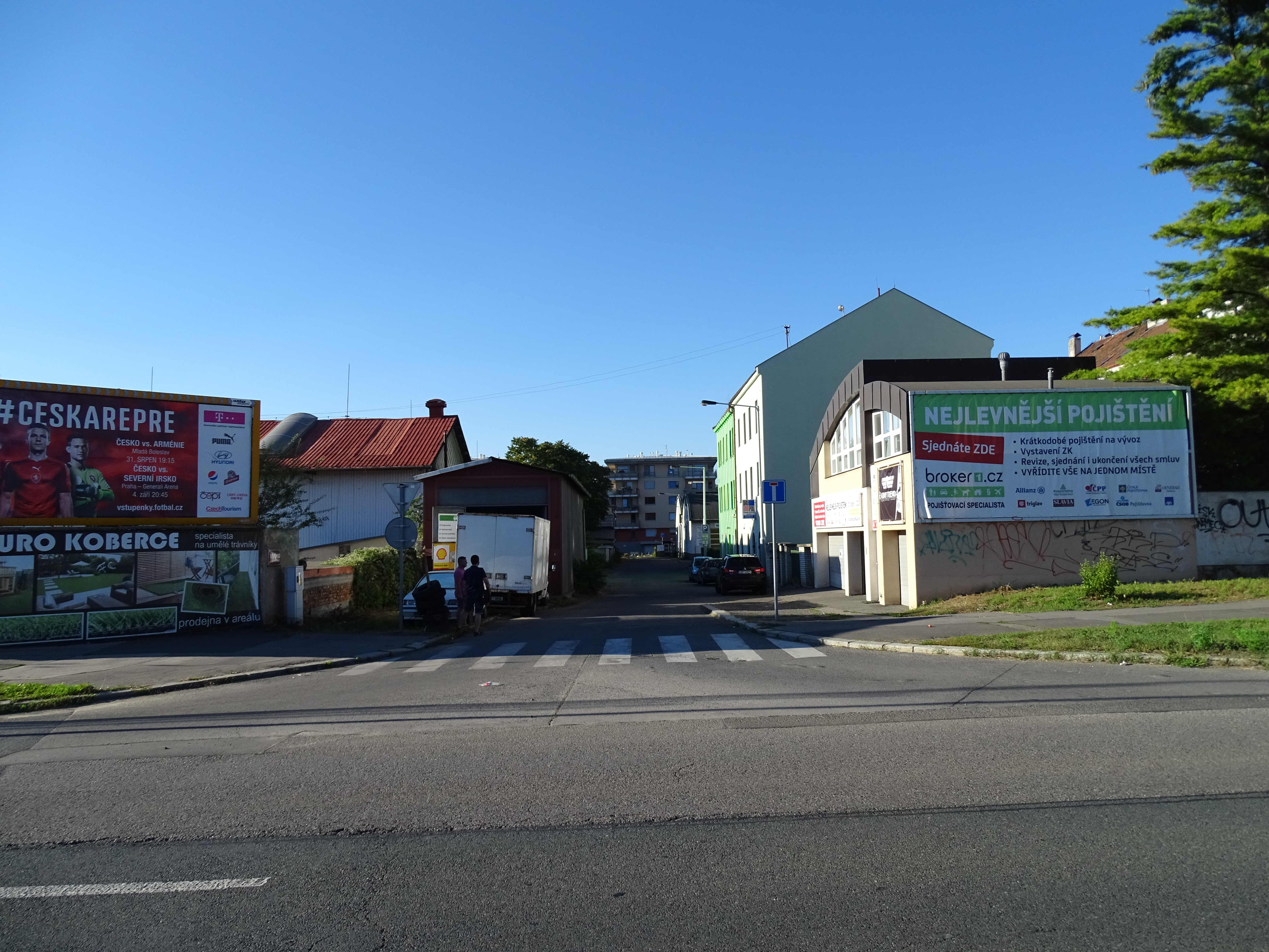 Prague-Vysočany, Czech Republic. V Předním Hloubětíně street, from Poděbradská street.